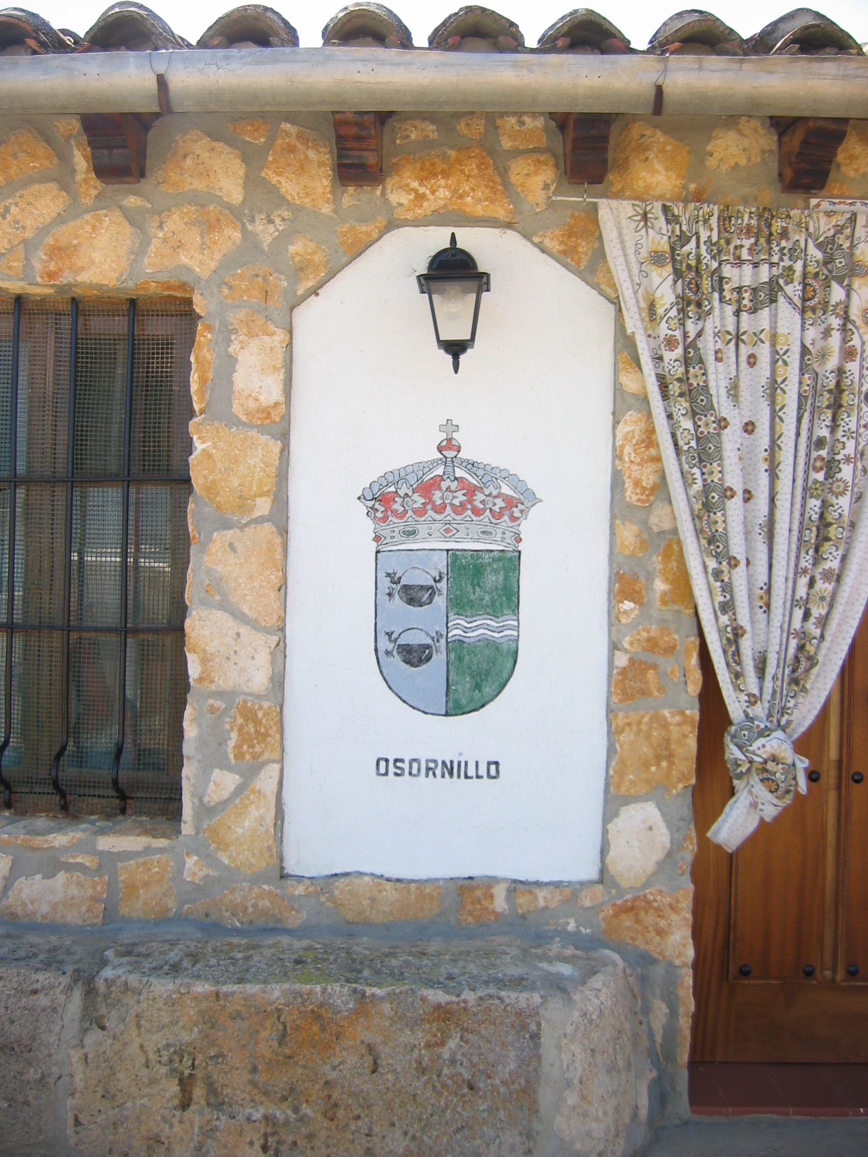 Typical door of a wine cellar with Coat of Arms of Osornillo (province of Palencia, Spain).